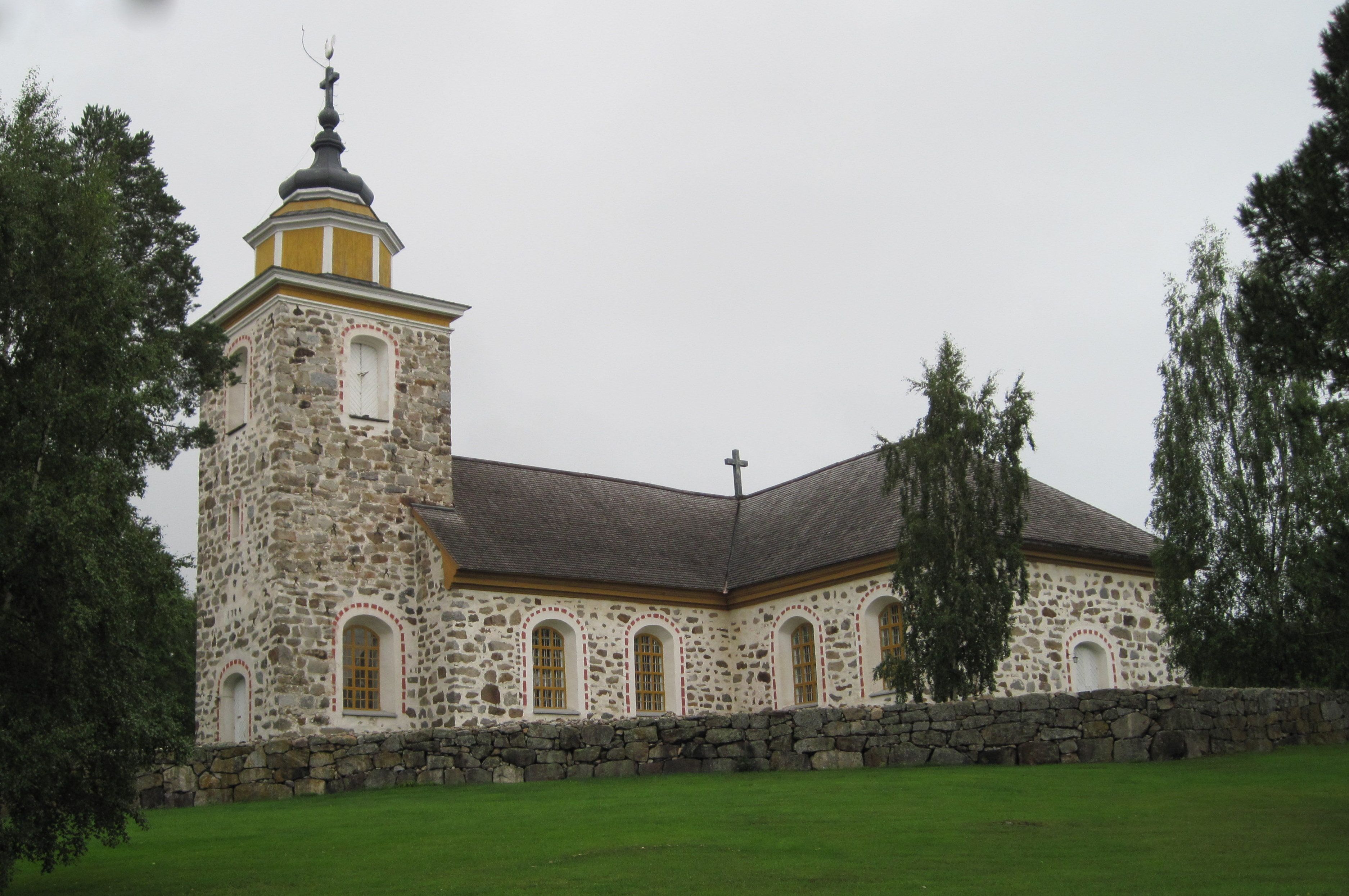 Munsala Church in Nykarleby, Finland